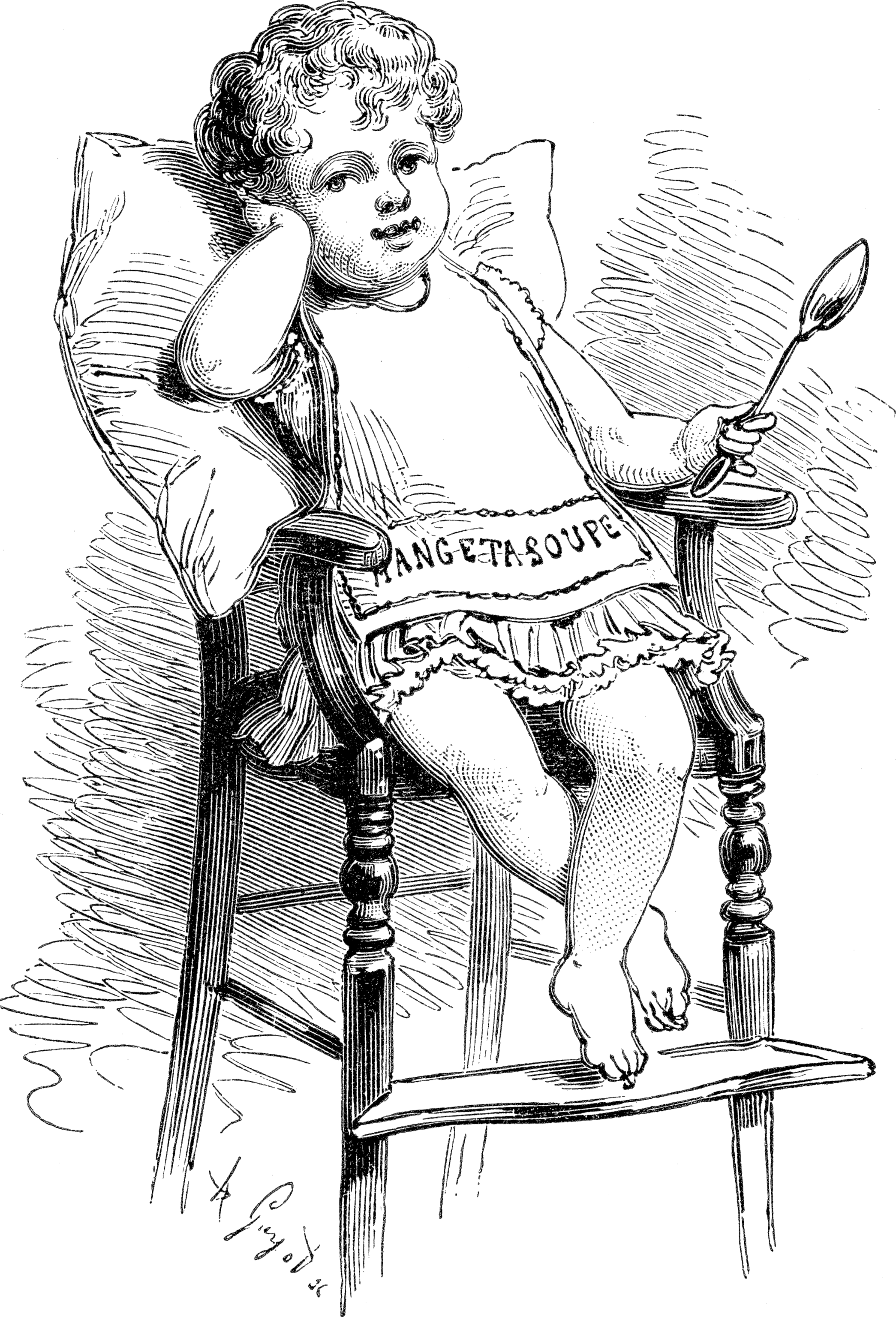 Bib